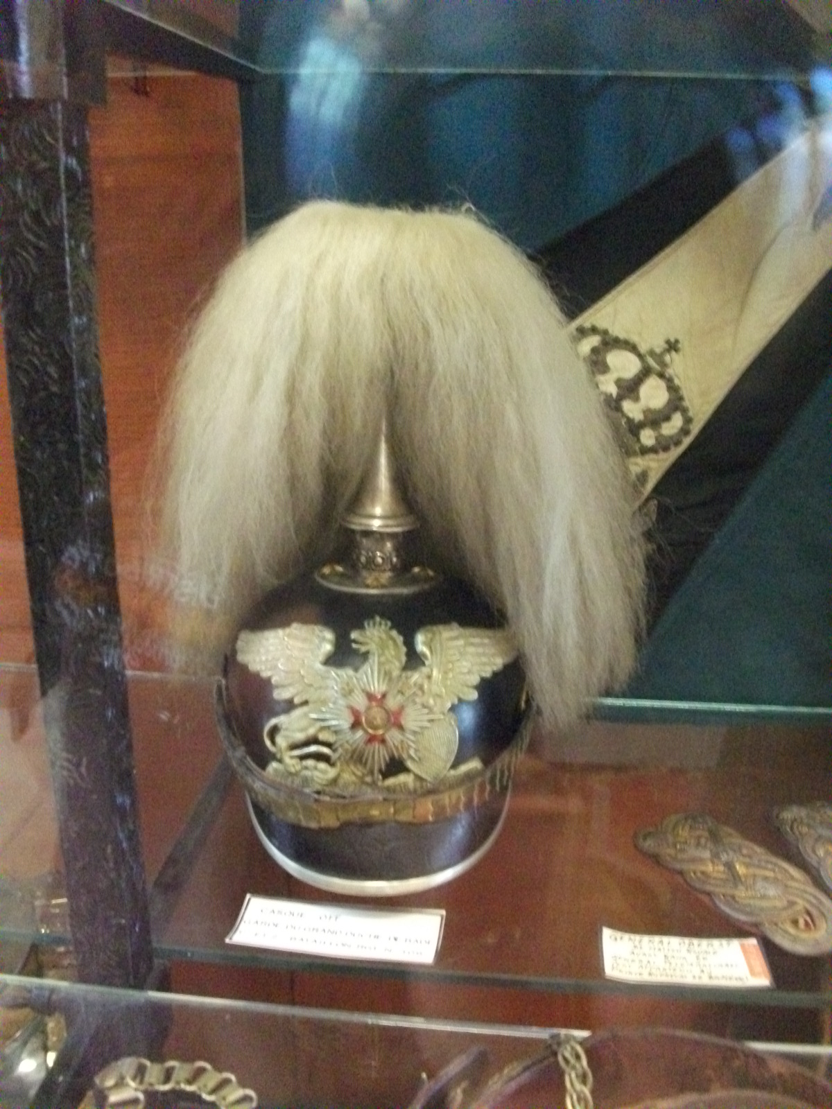 Officer's helmet prussian 109th Regiment (1st Baden Grenadiers), in the collection of German army headgear in Fort de la Pompelle